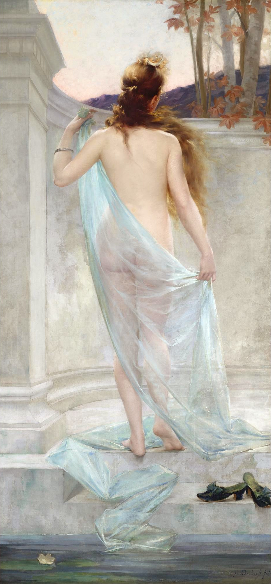 Diana leaving her bath